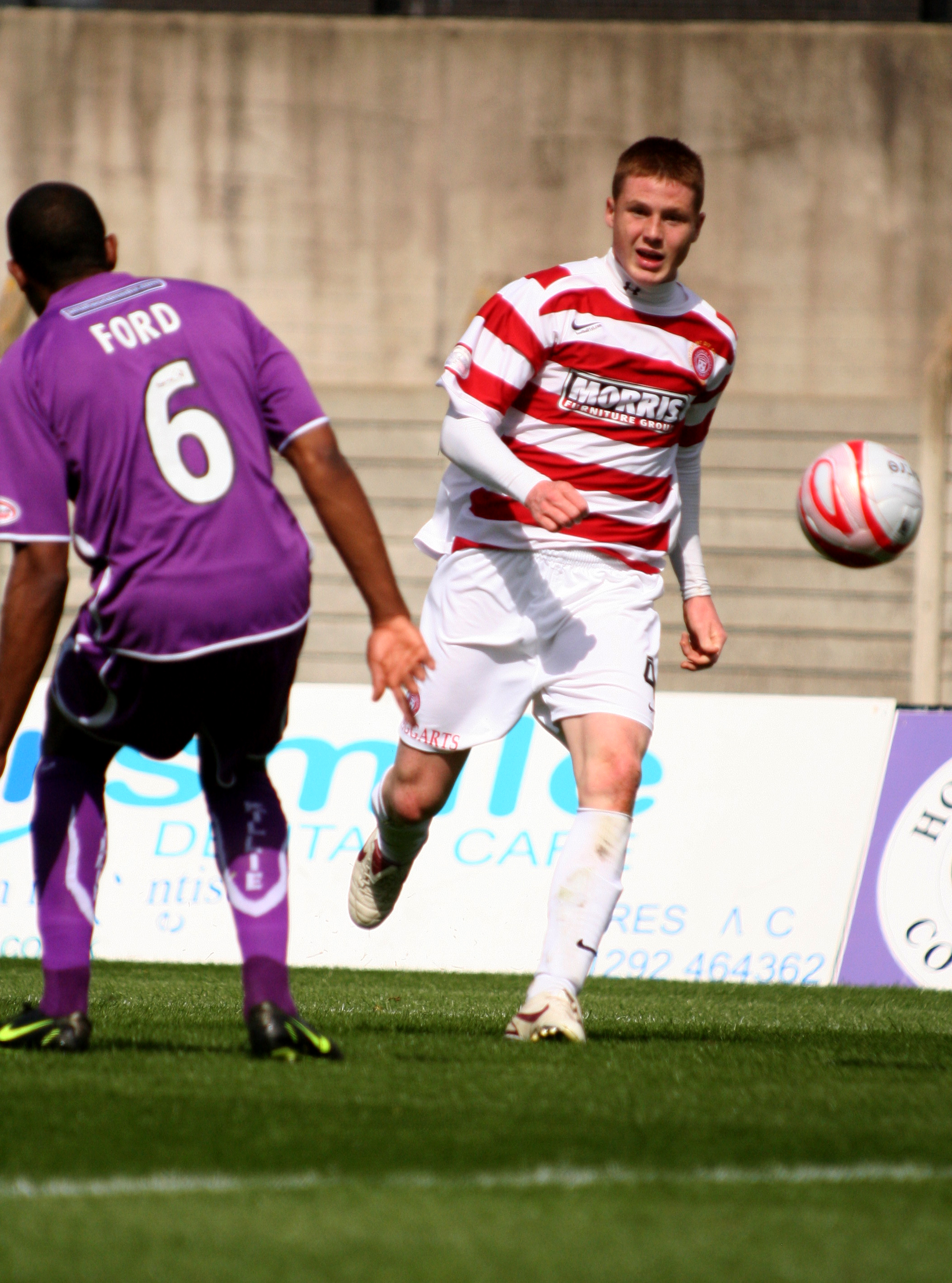 McCarthy Pass